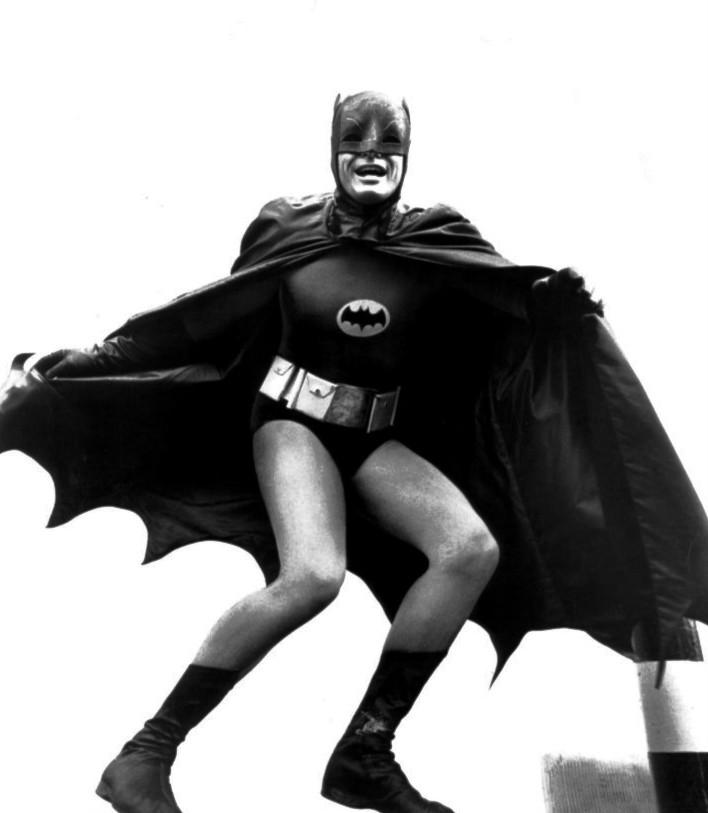 Photo of Adam West as Batman from the television program.